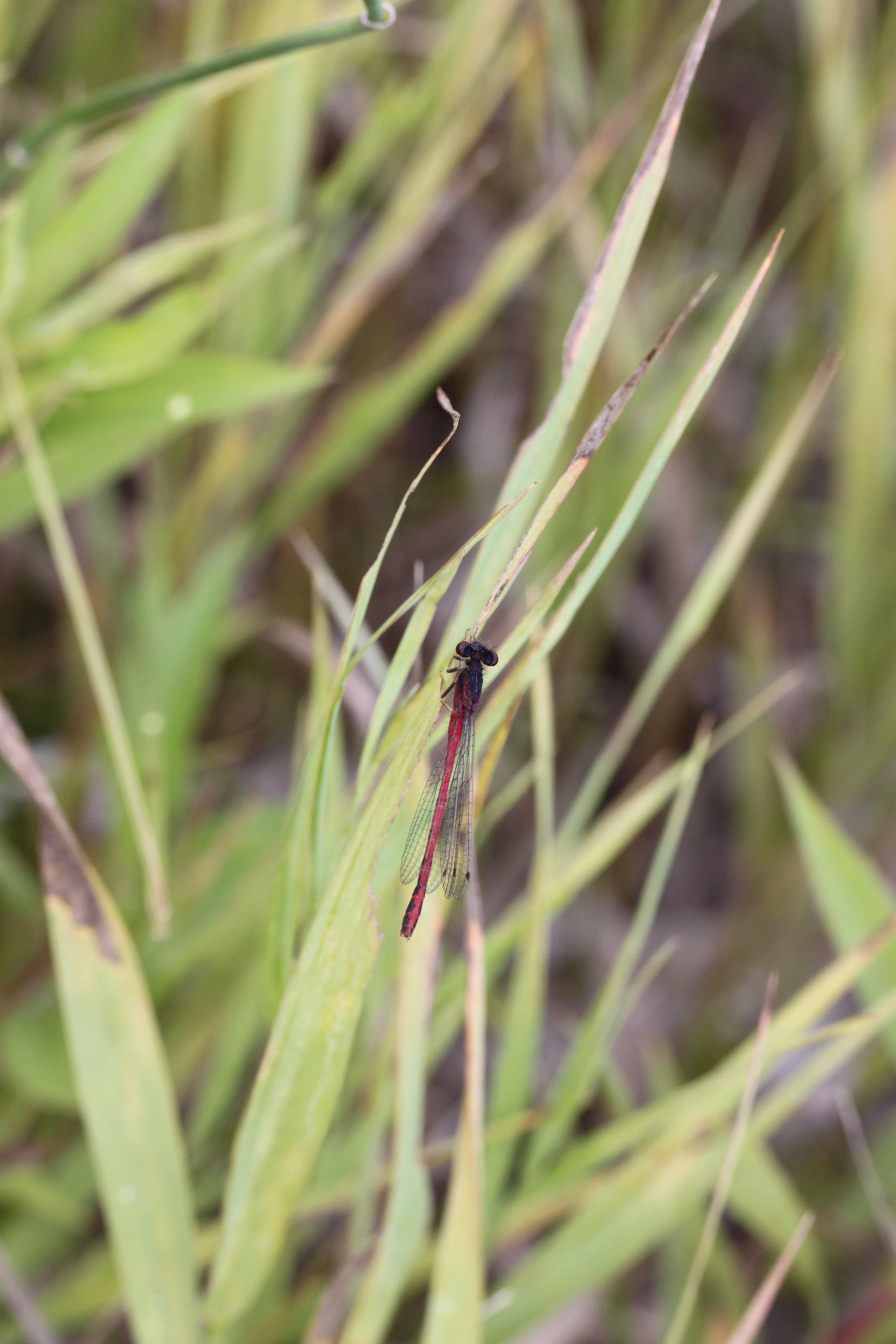 Amphiagrion abbreviatum found along irrigation ditch on Lee Metcalf National Wildlife Refuge; seems to have affinity for these ditches. Credit: Bob Danley/USFWS